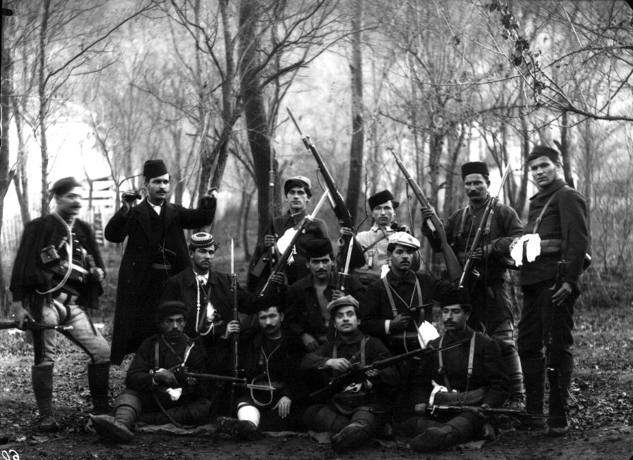 Cheta of Stefan Kondakov, bulgarian revolutionary from Bitola, 1903